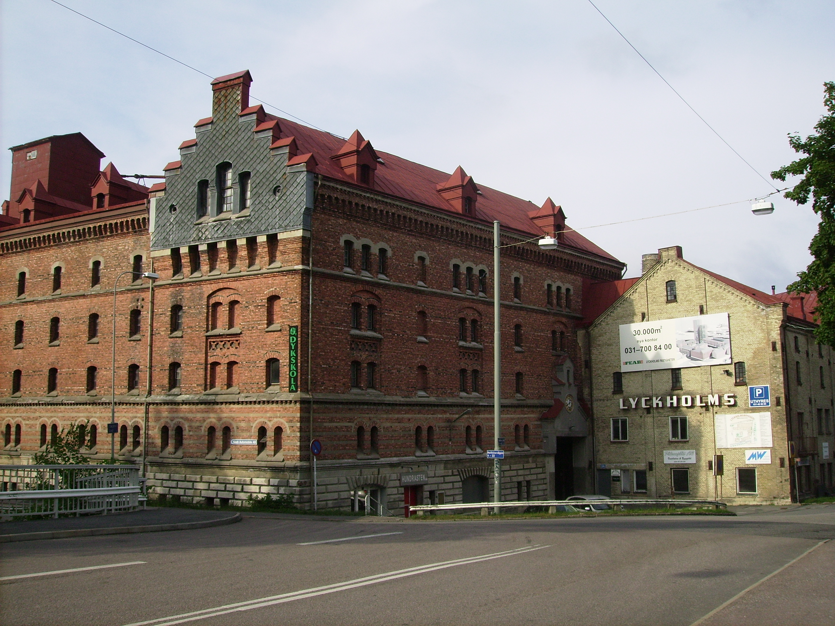 Picture of Lyckholms brewery in Gothenburg